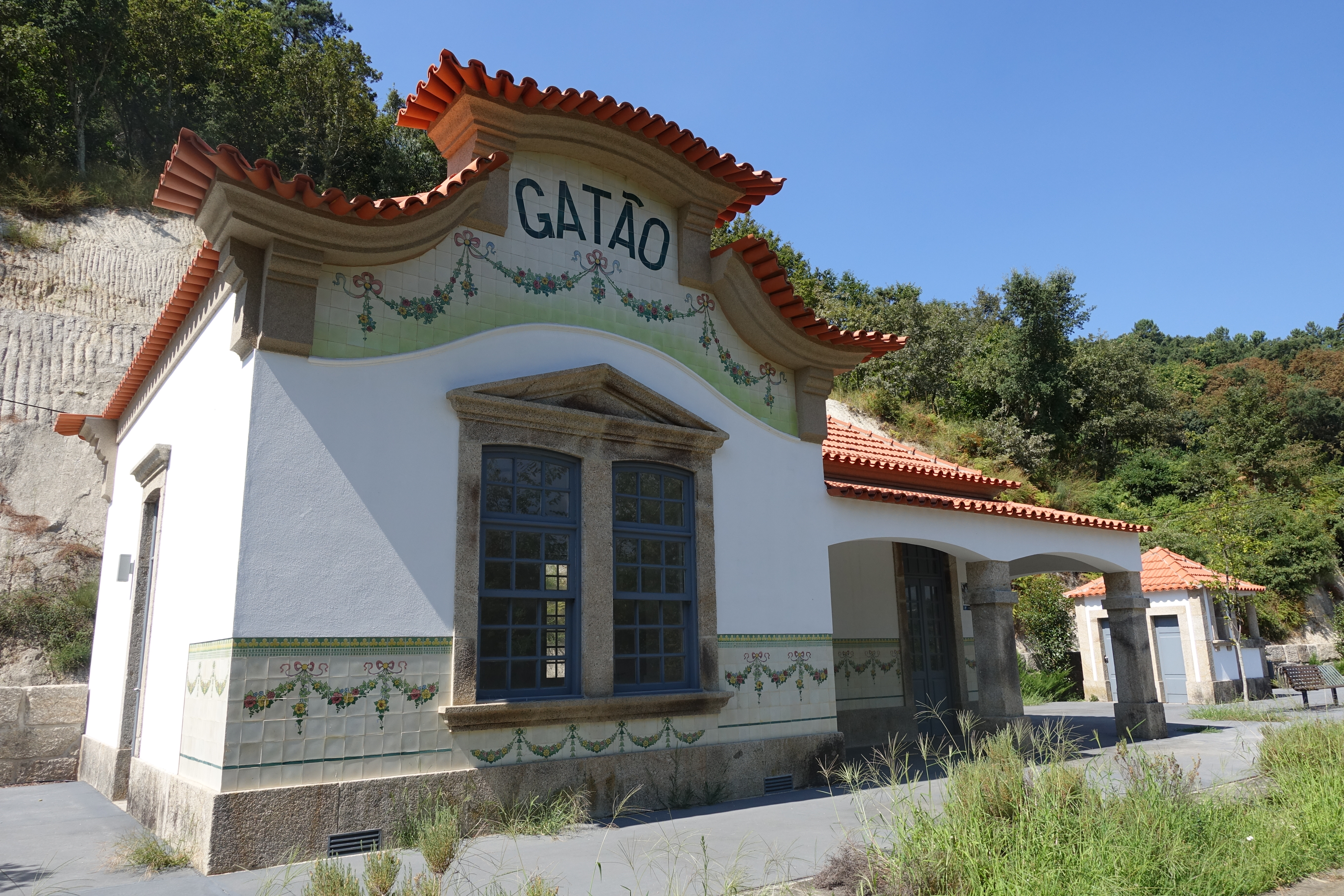 Ecopista do Tâmega, Portugal.